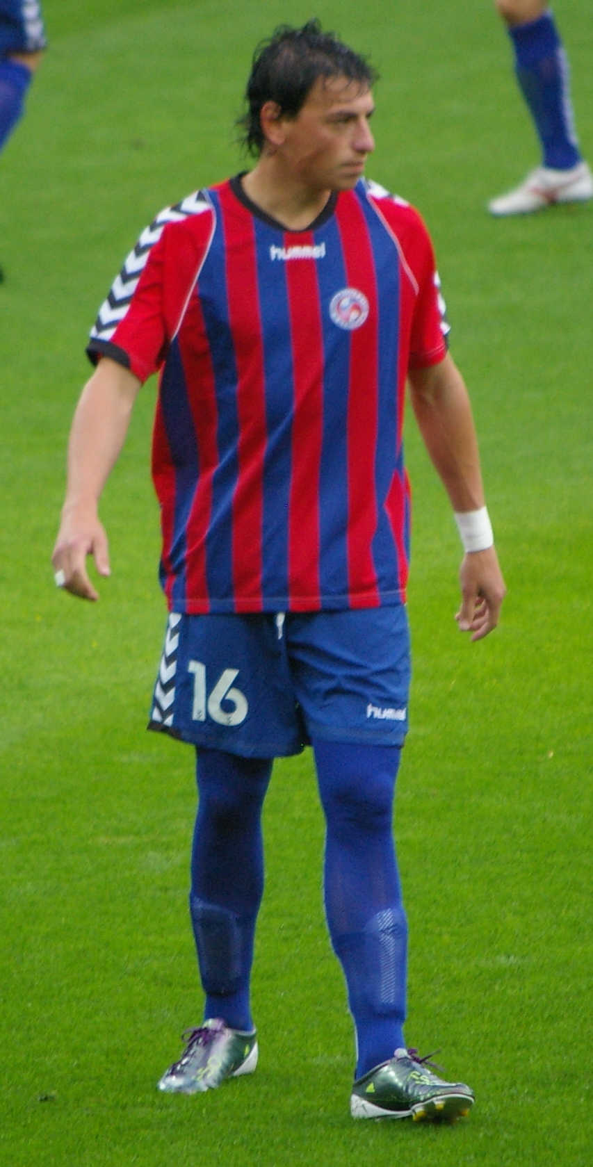 defender ŠK Slovan Bratislava